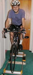 bicycle rollers Photo taken by Tim Dearborn